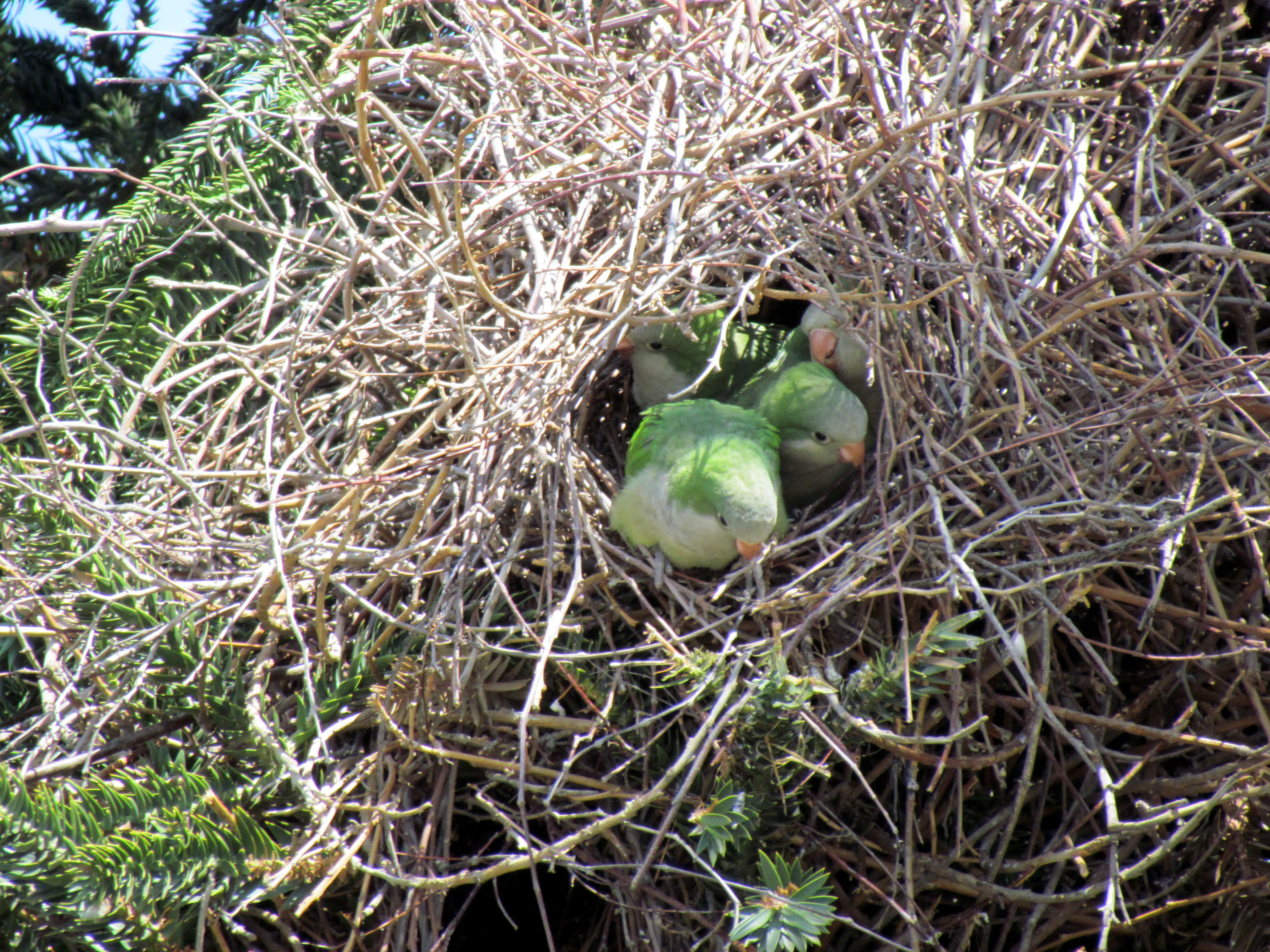 A Monk Parakeets (also known as the Quaker Parrot) and their nesting colony in Santiago, Chile.